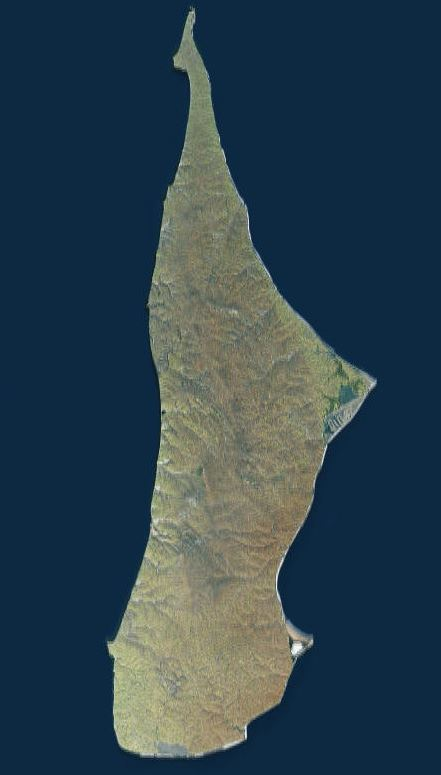 Belikovsky Island, East Siberian Sea